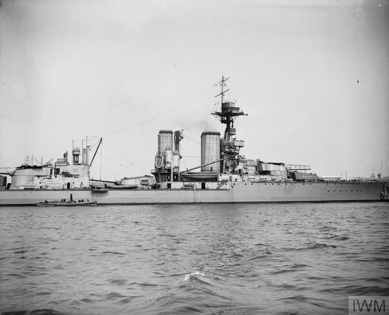 The battleship HMS Centurion at anchor, June 1919